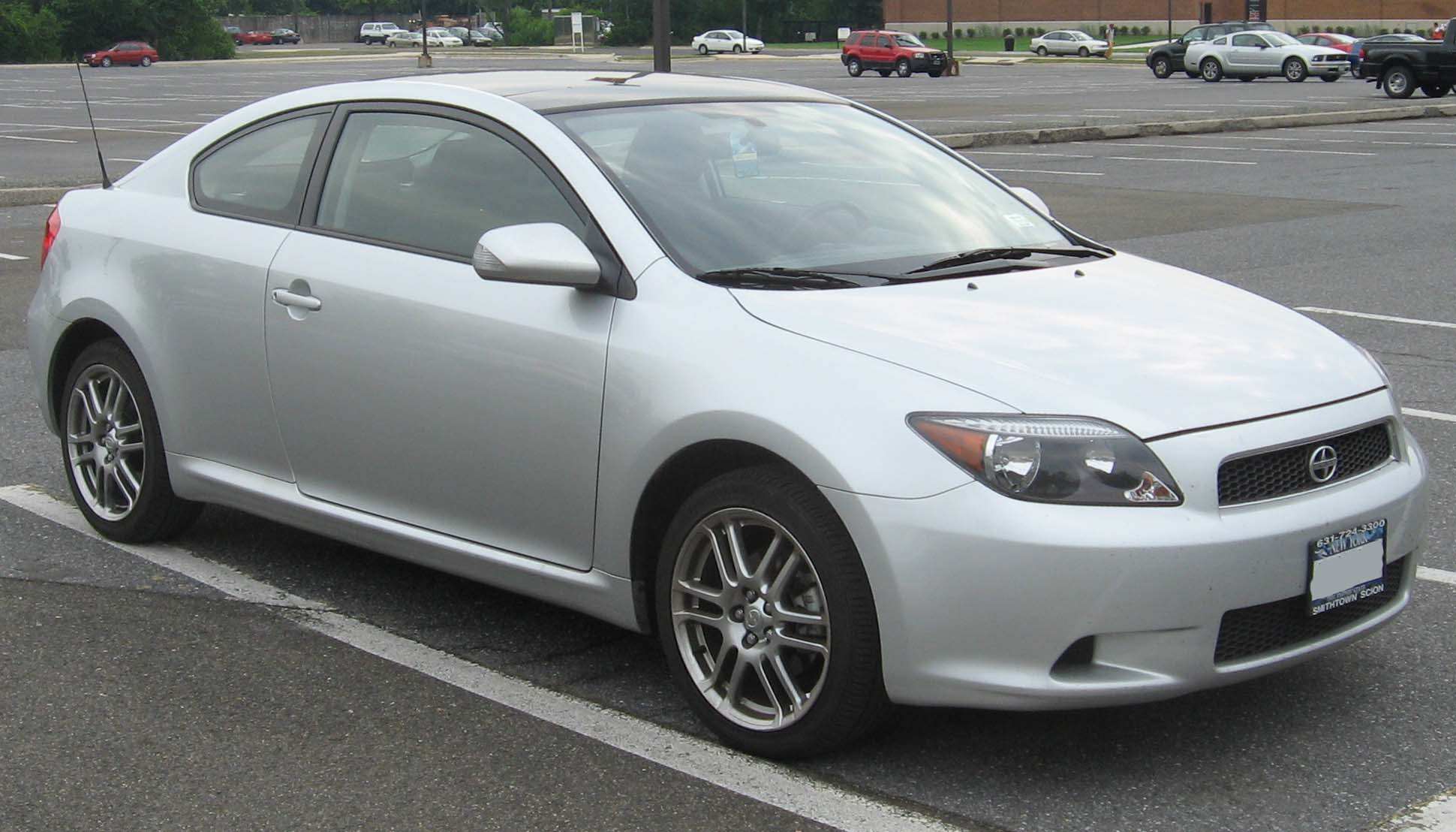 2005-2007 Scion tC photographed in USA.